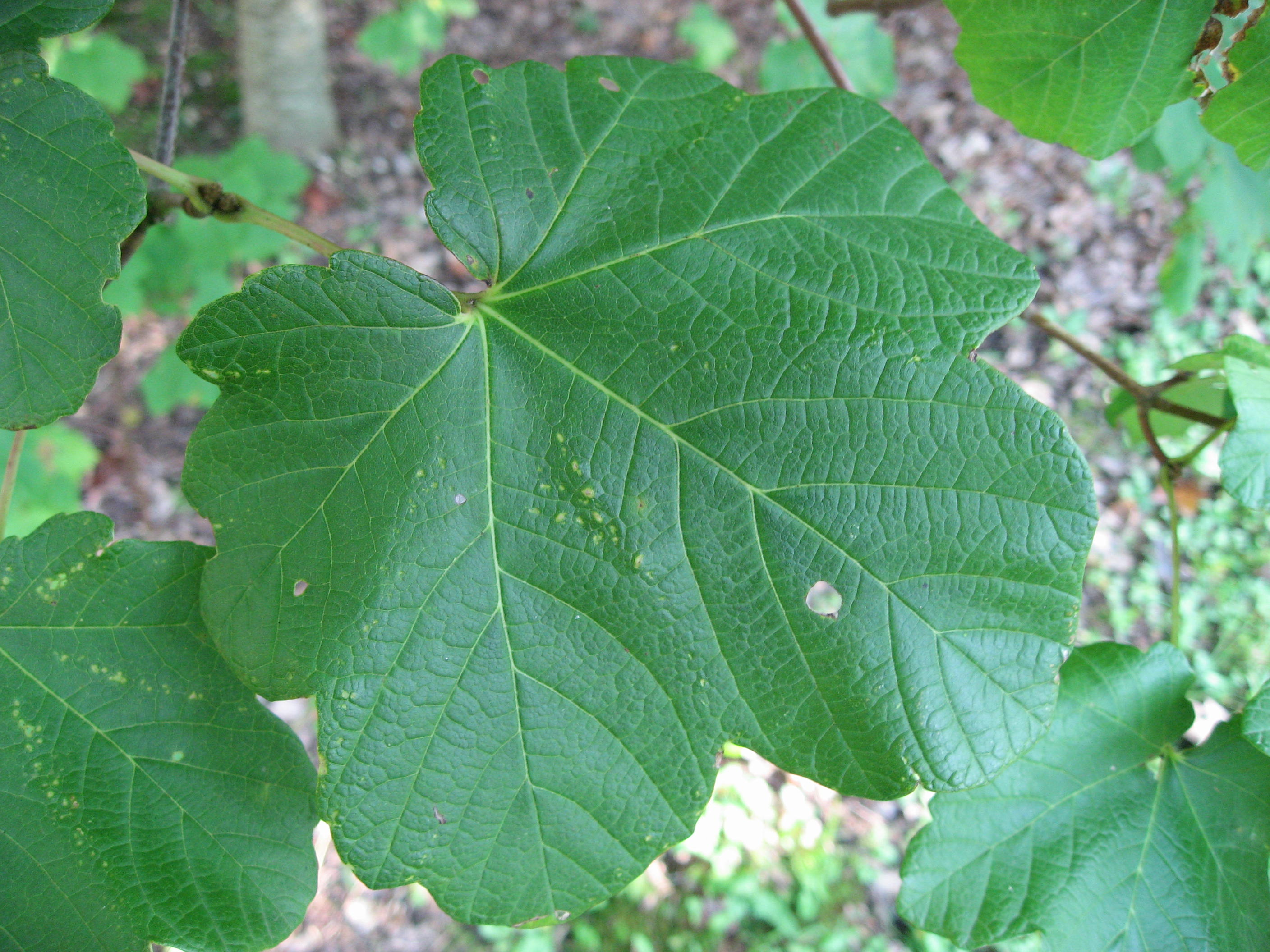 Acer opalus in Arboretum de La Roche-Guyon Map: 49° 5' 56" N 1° 38' 23" E